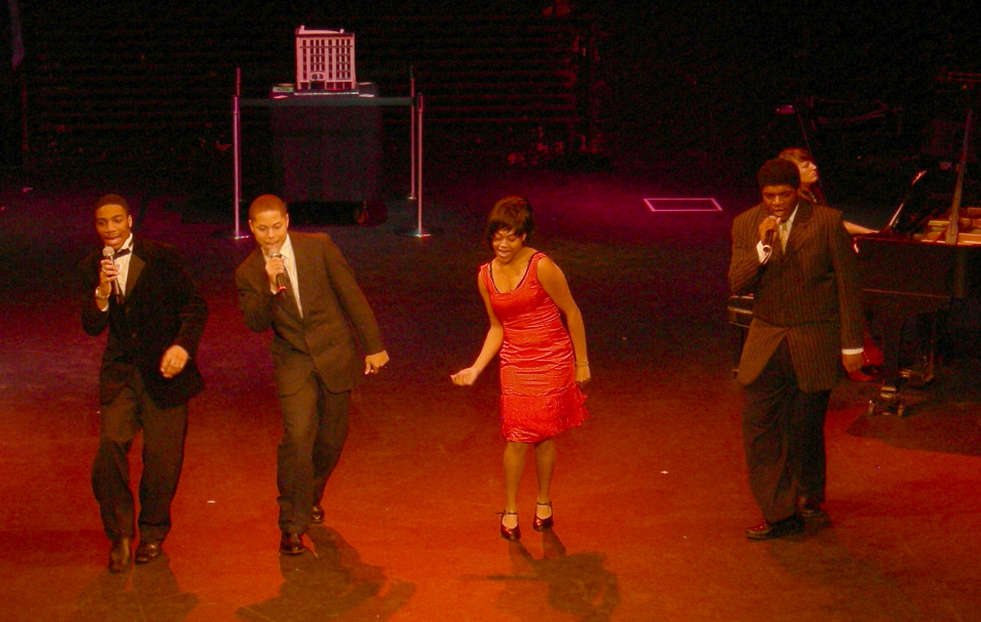 Young actors from the group Broadway Bound perform a number from the musical Dreamgirls as part of Moore 100 Open House Celebration, a celebration of the 100th anniversary of the Moore Theatre, Seattle, Washington.